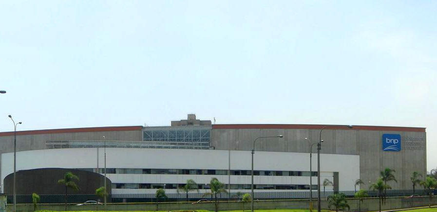 National Library of Peru.